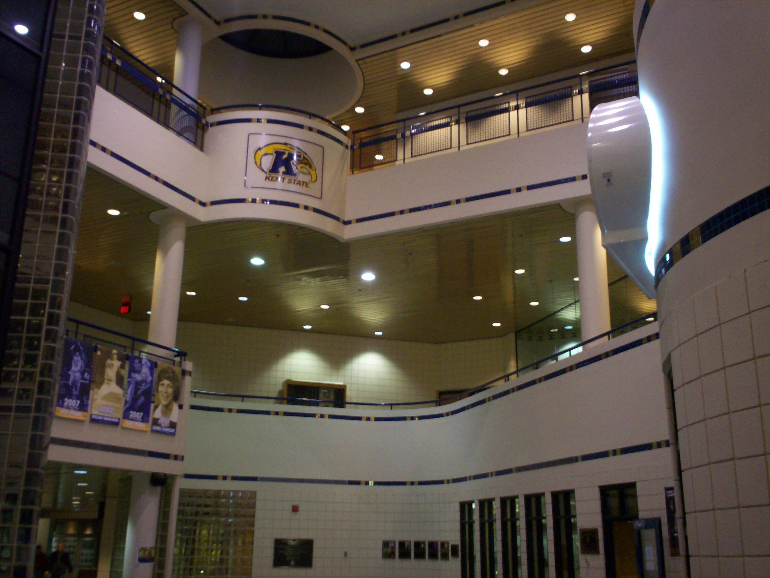 Interior view of the main lobby at the Memorial Athletic and Convocation Center at Kent State University.